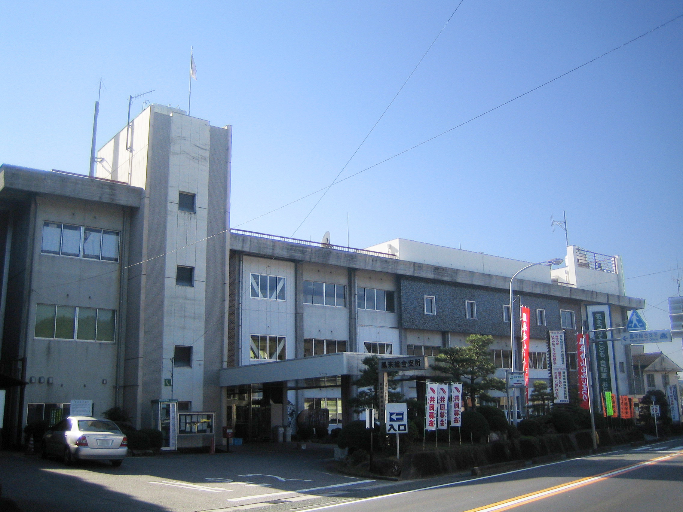 Shinshiro City Horai Branch Office (新城市鳳来総合支所), located in Shinshiro, Aichi, Japan. It was the Horai Town Office (鳳来町役場) until September 30, 2005.